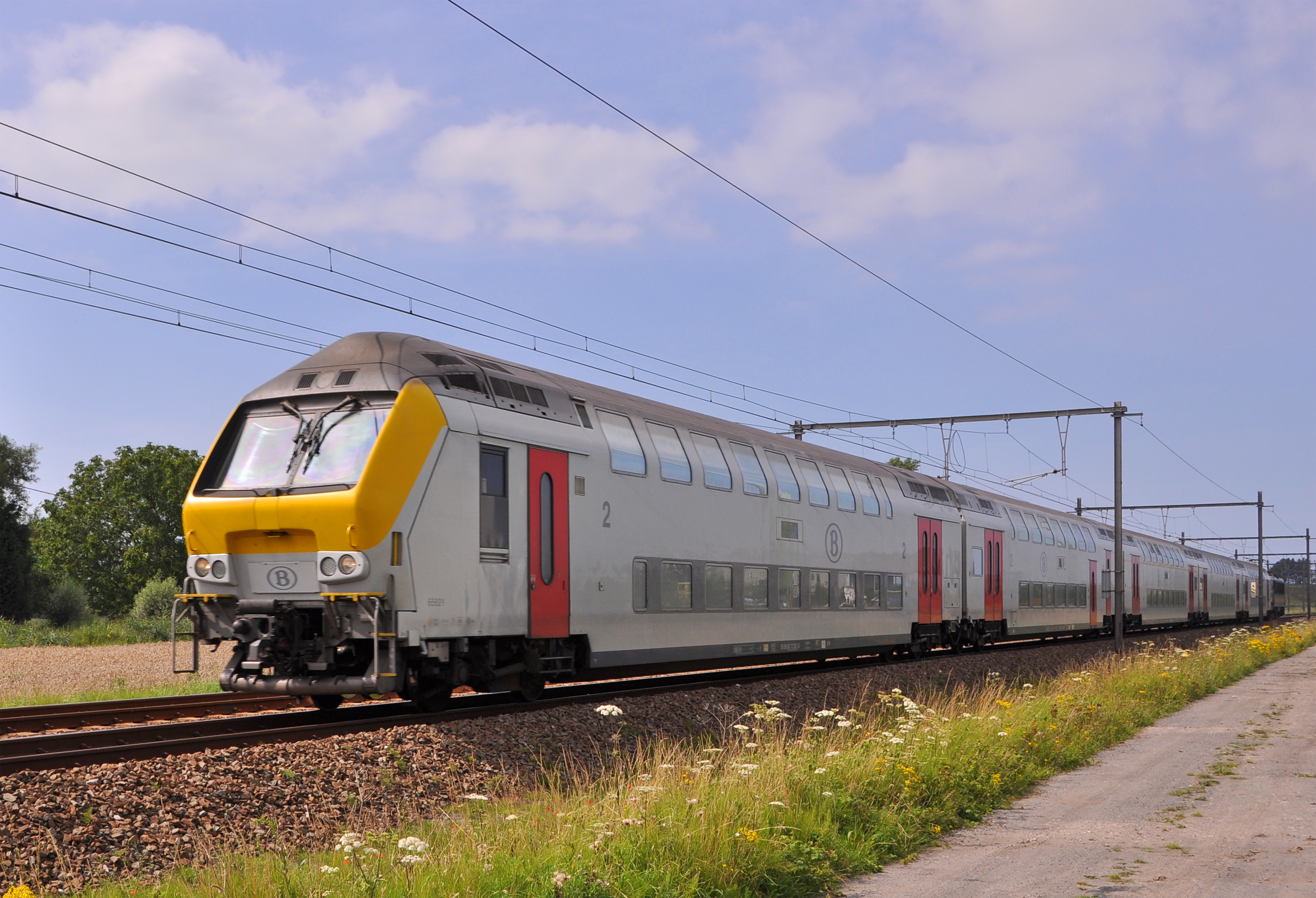 SNCB M6 Control car